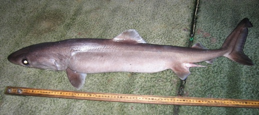 Crocodile shark (Pseudocarcharias kamoharai) (cropped from original)